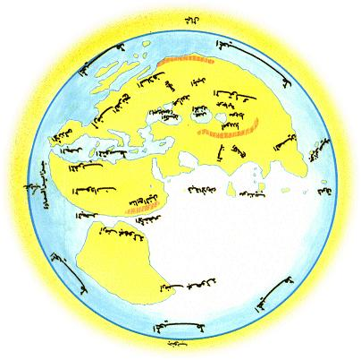 Map of the World